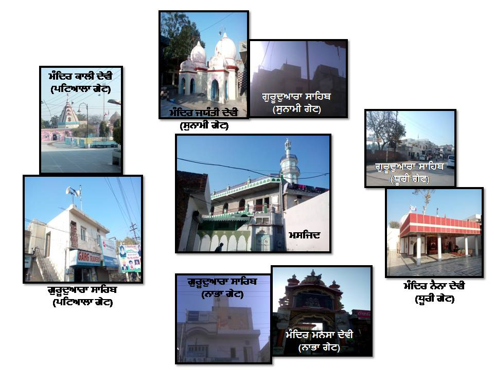 Four gates of Sangrur City